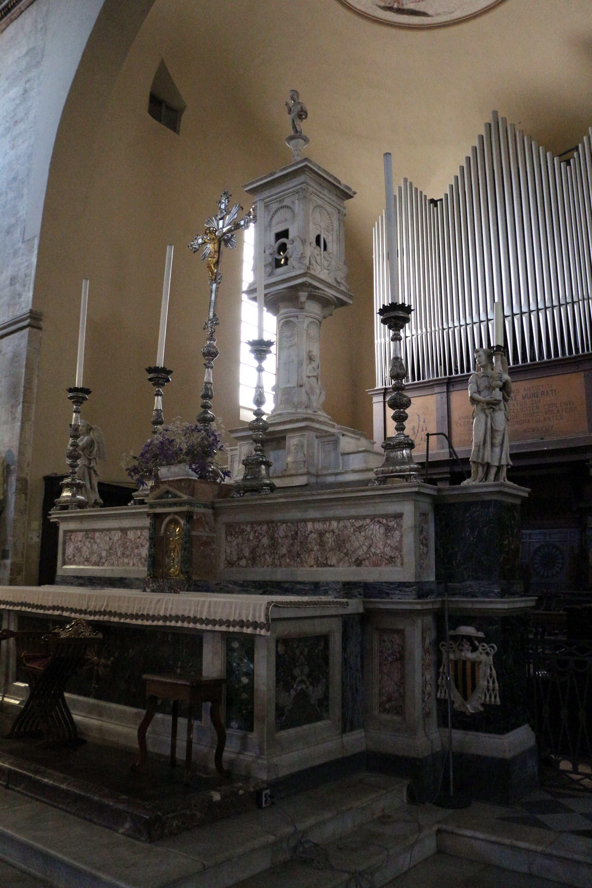 Duomo (Volterra) - Interior